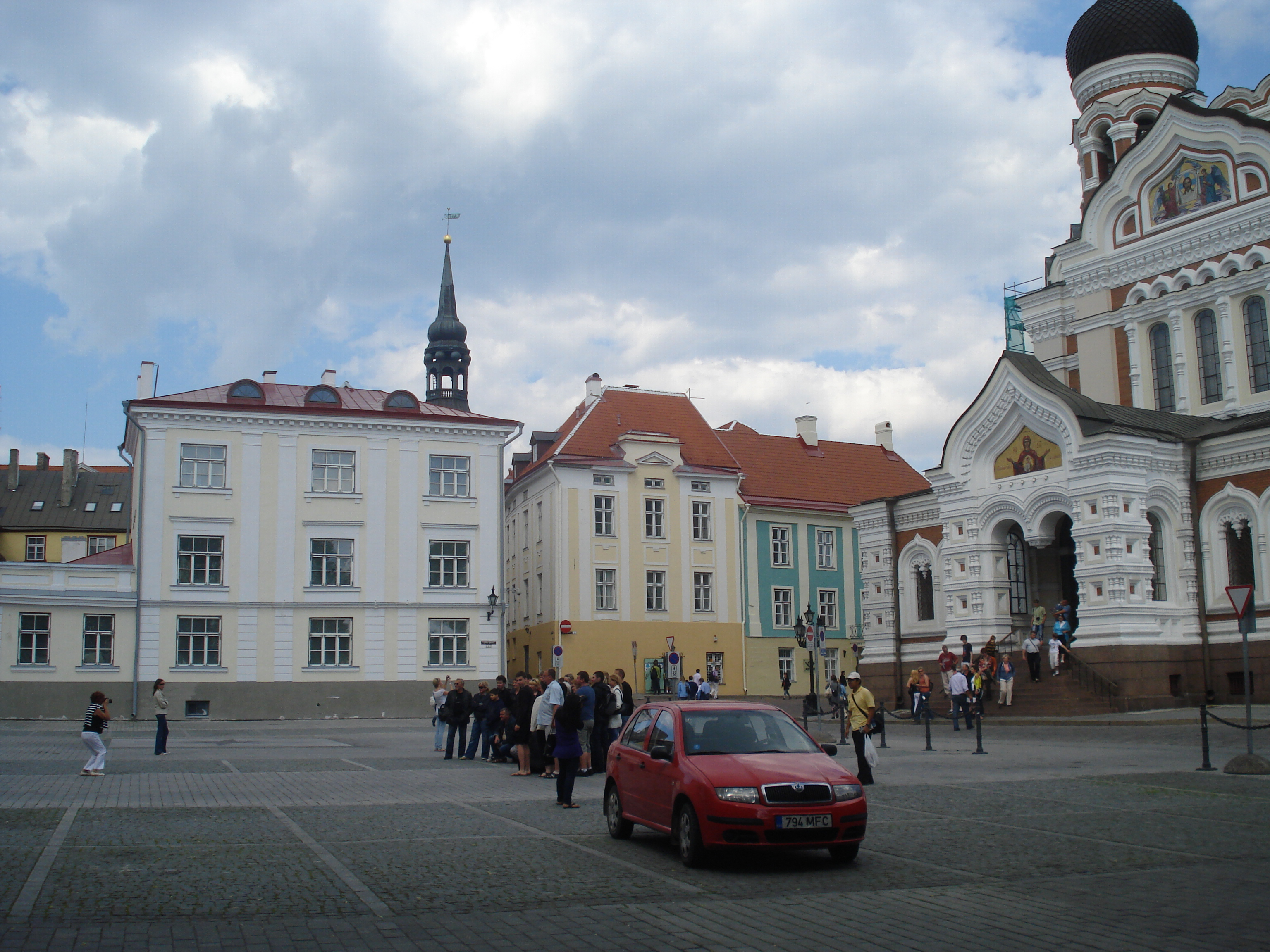 Lossi plats (Castle Square) in Tallinn